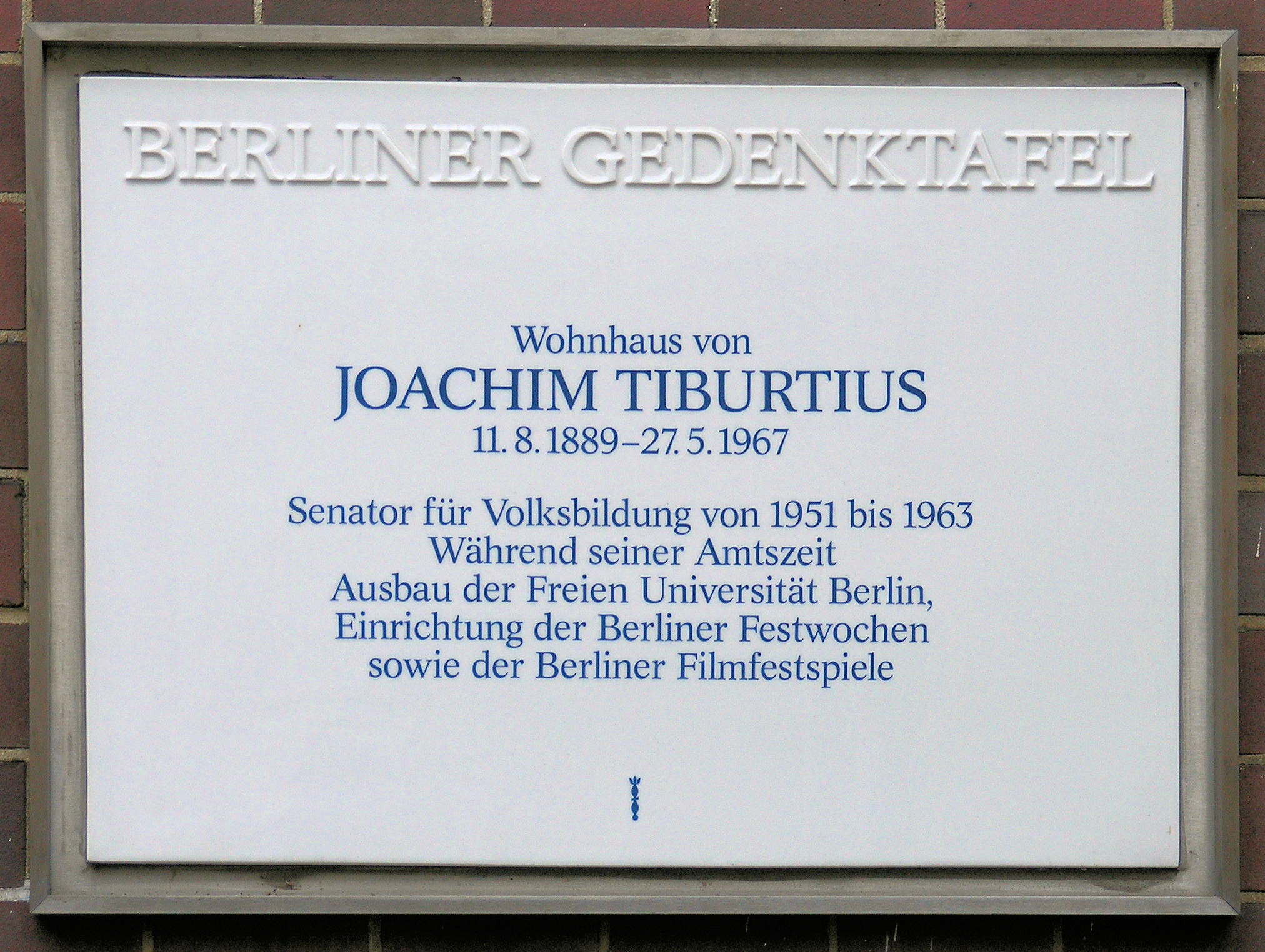 Berlin memorial plaque, Joachim Tiburtius, Hortensienstraße 12, Berlin-Lichterfelde, Germany Koordinate:52°26′55″N 13°18′23″E / 52.44861°N 13.30639°E